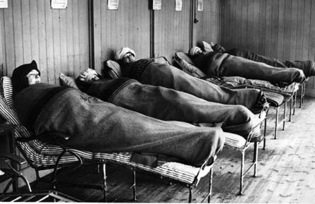 Tbc-patienterna på Söderby sanatorium får frisk luft under en vilotimme i det fria.